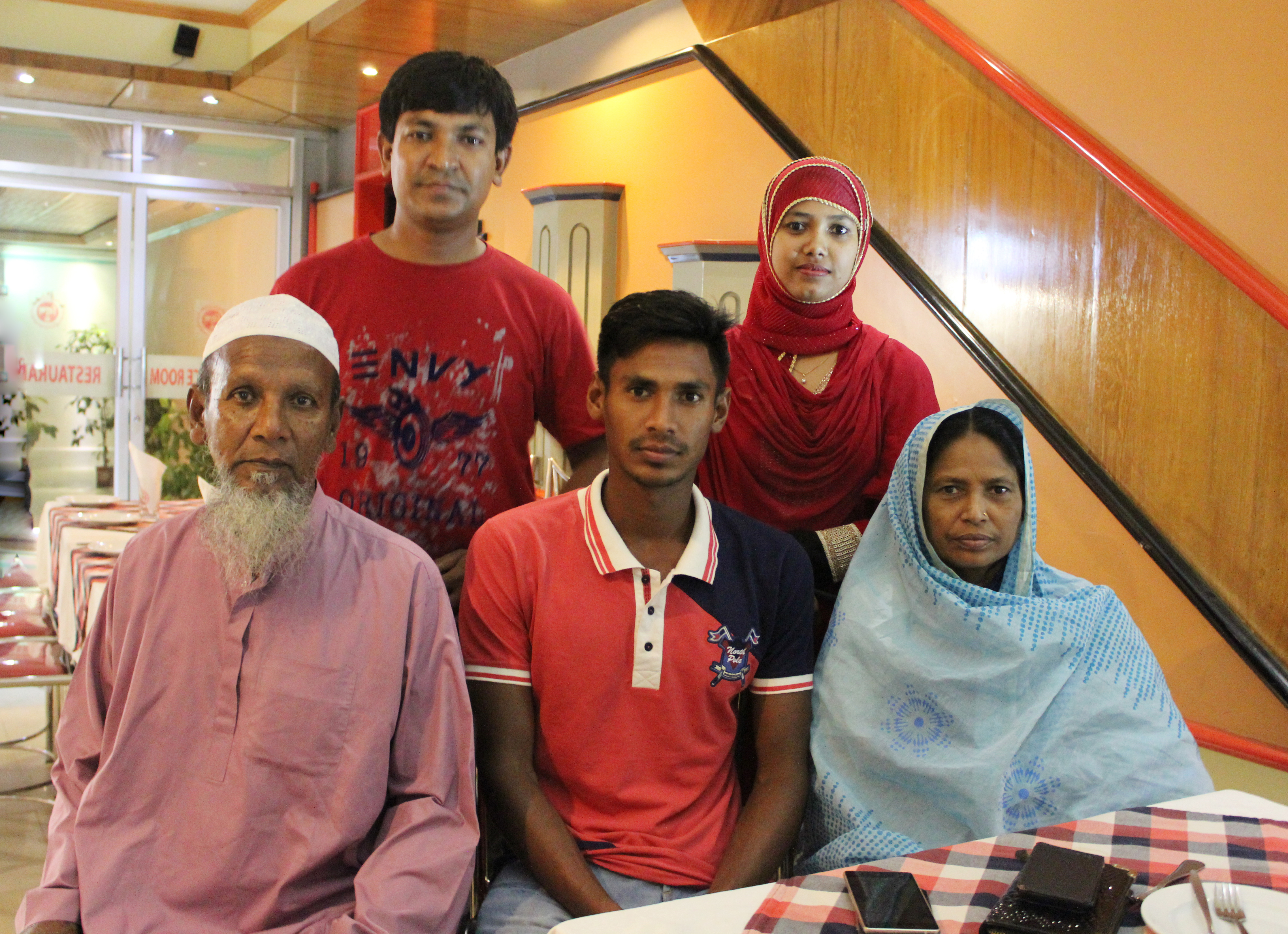 Mustafiz with his familly